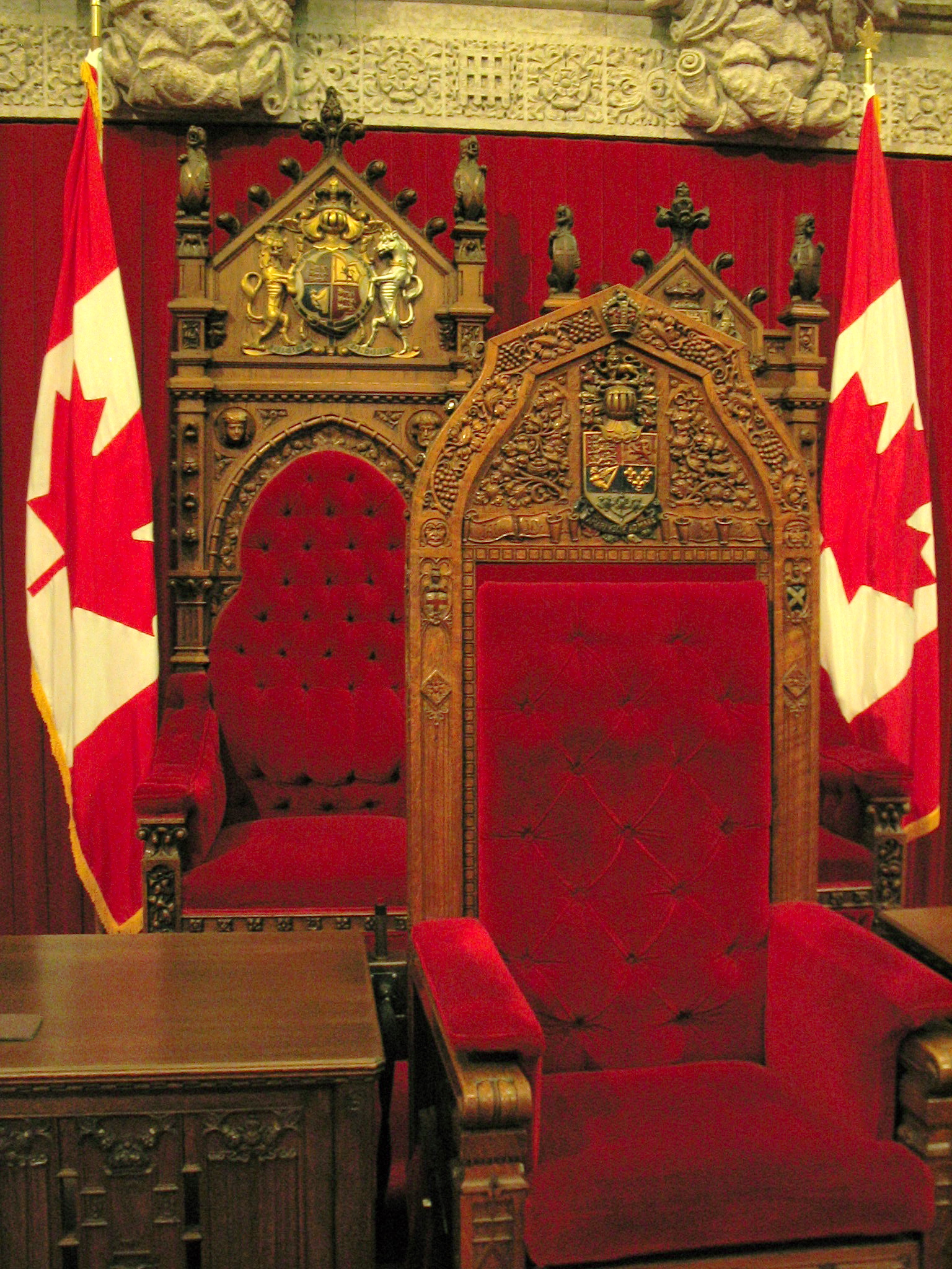 In the Chamber of the Senate of Canada. In front, the chair of the Speaker of The Senate. Behind, the chair of the Queen or of the Governor general.